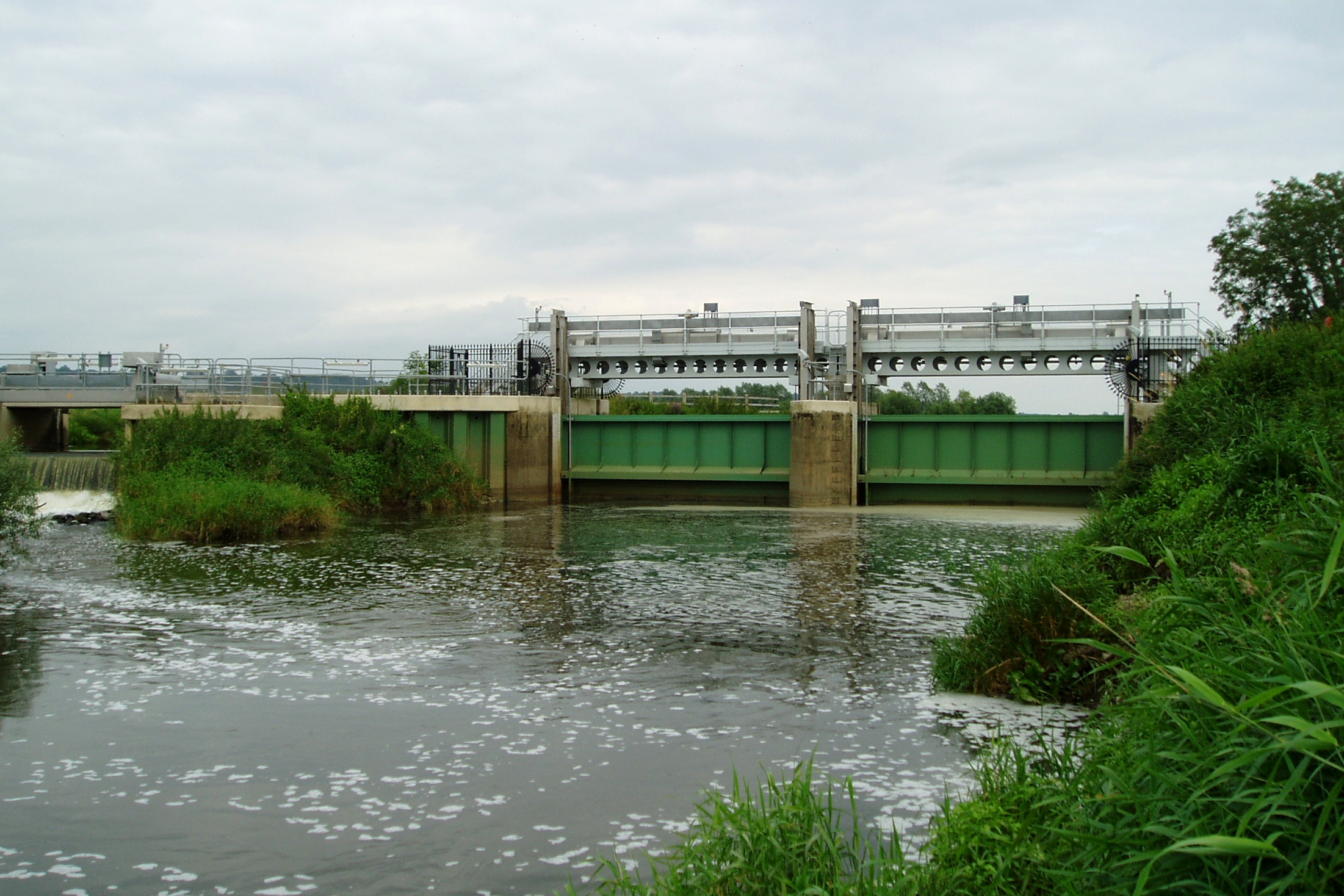 The sluice at Oath Lock on the River Parrett, Somerset